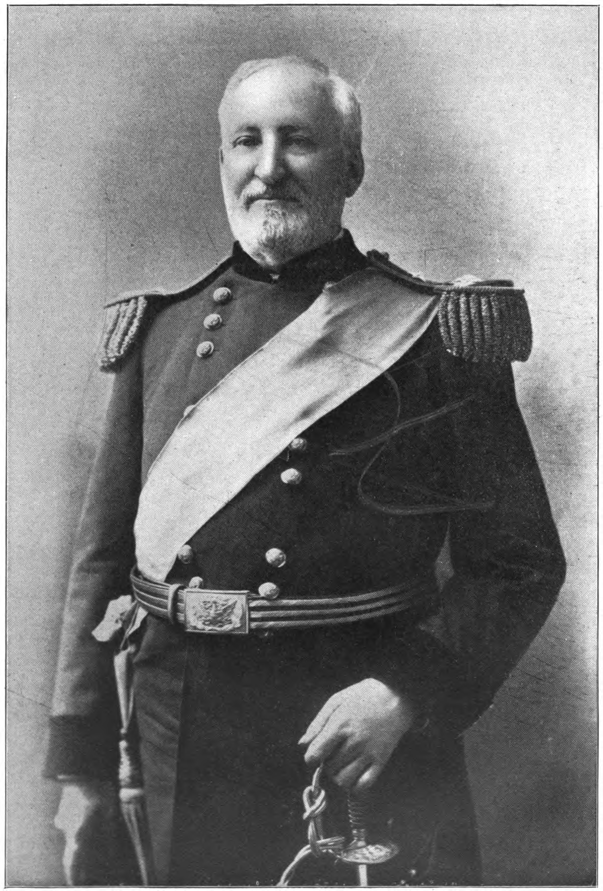 William S. Rosecrans Civil War General.